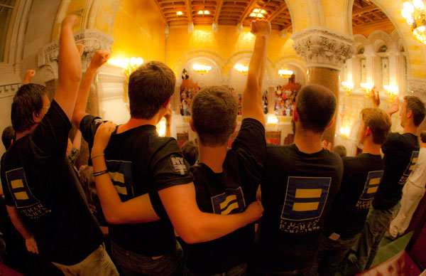 the moment of the Marriage Equality Act vote at the capitol building in Albany NY June 24, 2011. In the balcony of the chambers. photographed by the Celebration Chapel of Kingston NY